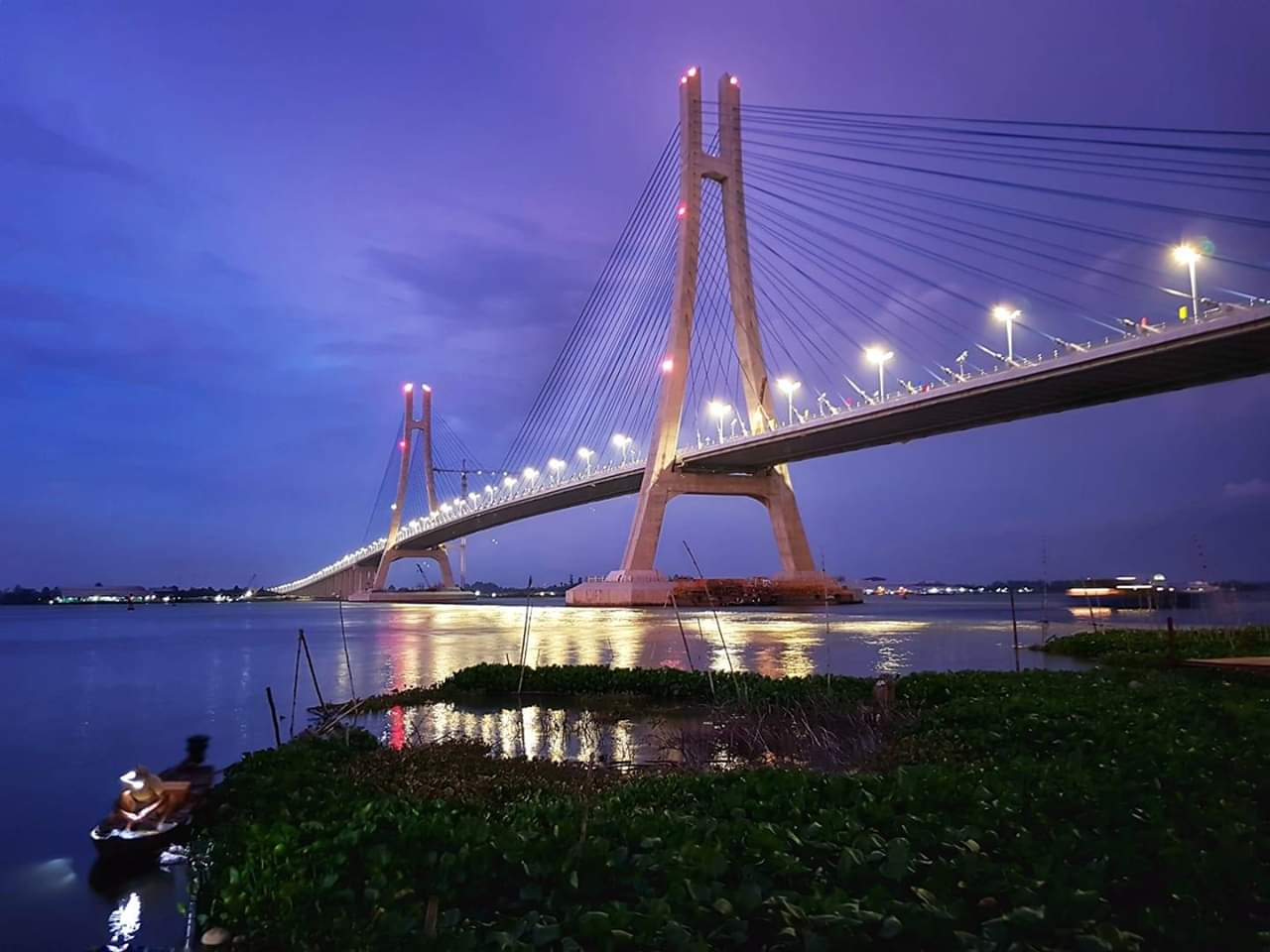 Vam Cong Bridge 15/5/2019